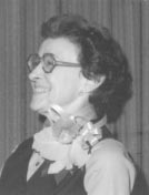 Gene Grabeel, cryptoanalyst, creator of Venona